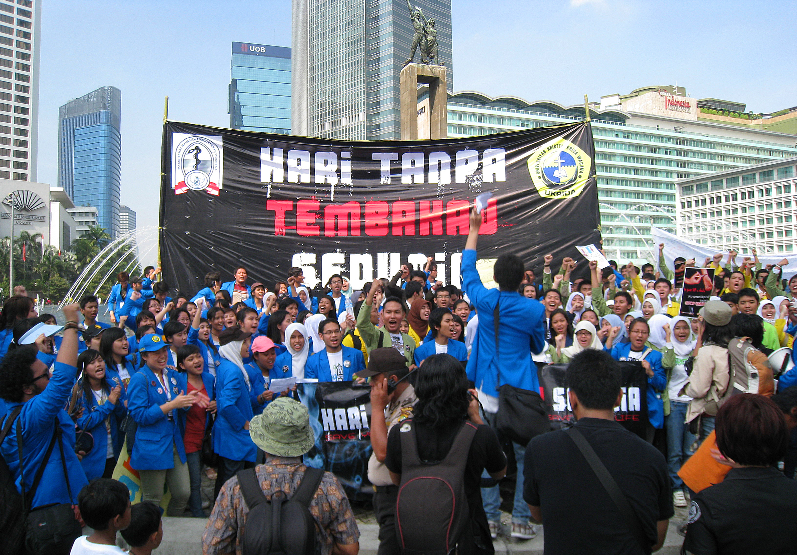 The medical students from several Universities in Jakarta demonstrate against tobacco during "A Day Without Tobacco", an anti-tobacco movement, at Bundaran Hotel Indonesia roundabout, Central Jakarta, Sunday 30th May 2010.